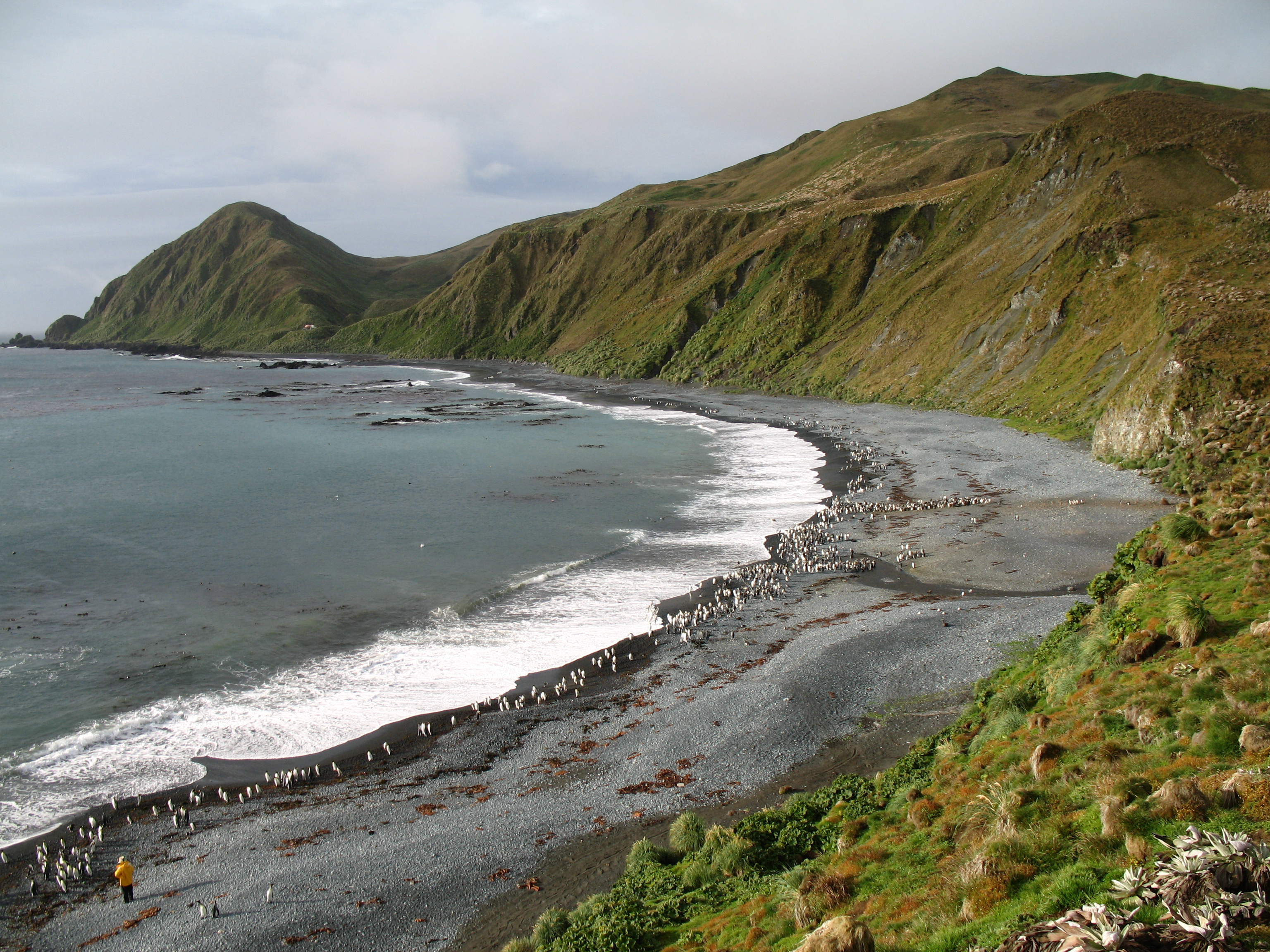 View over Macquarie Island beach (with Royal and King Penguins)